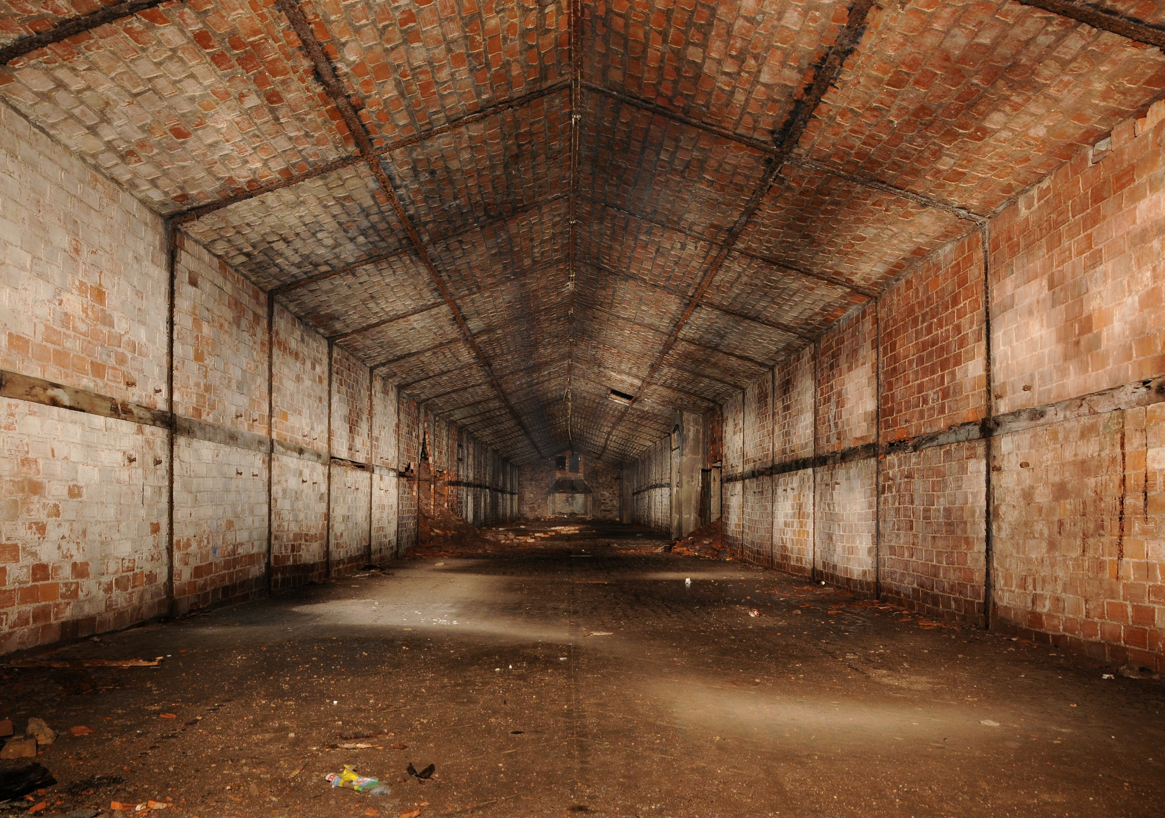 Underground troop shelter. Roppe fortifications (lightpainting).